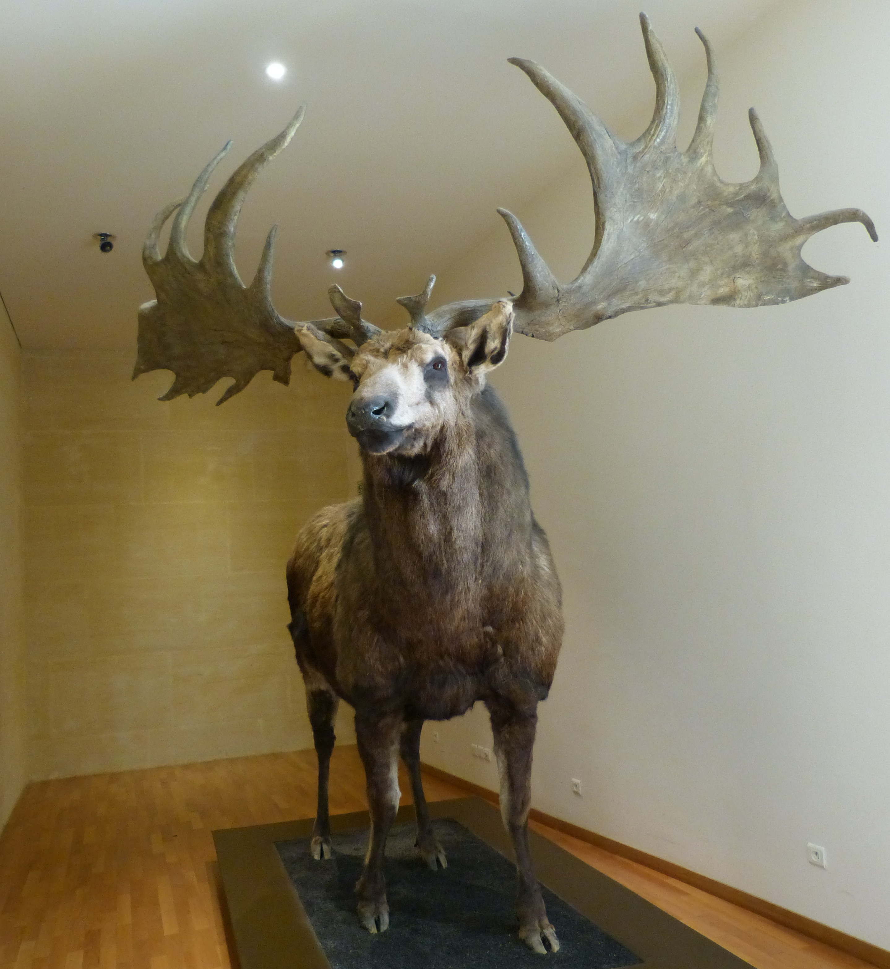 Les Eyzies-de-Tayac ( Dordogne ). Musée national de Préhistoire: Reconstruction of a megaloceros giganteus ( 35.000 BC )